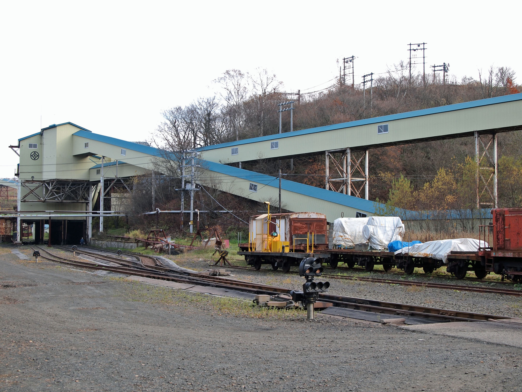 Taiheiyo Coal Services and Transportation Mine Harutori Station, Kushiro, Hokkaido, Japan